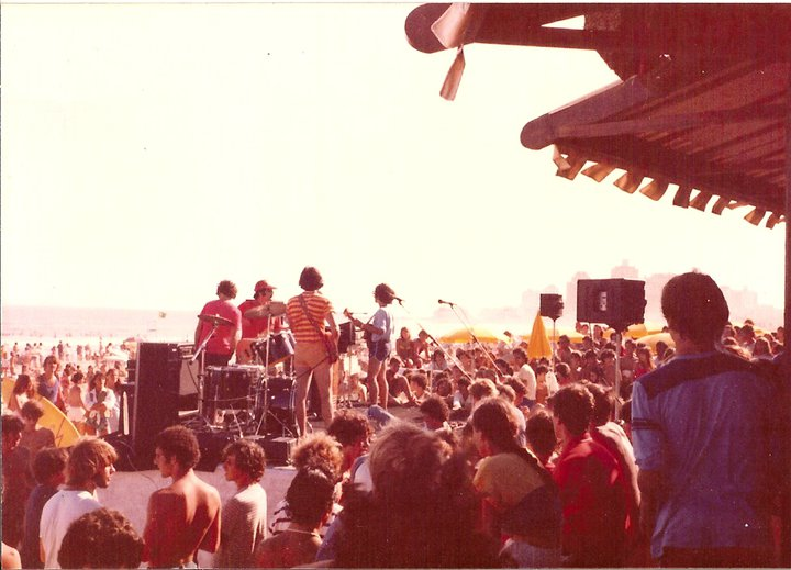 Charlie Amato con el Grupo "The Morgan" tocando en La Olla, Punta del Este, Uruguay, en el verano de 1981. Concierto al aire libre frente al mar. Chris Hansen en guitarra, Hector "Zeta" Bosio en bajo (con gorro roja), Hugo Dopaso en bateria y Osvaldo Kaplan en teclados. Falta en la foto la cantante Sandra Baylac.